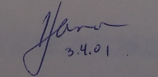 Hanon Reznikov's signature, cropped from this photo of an inscribed book page